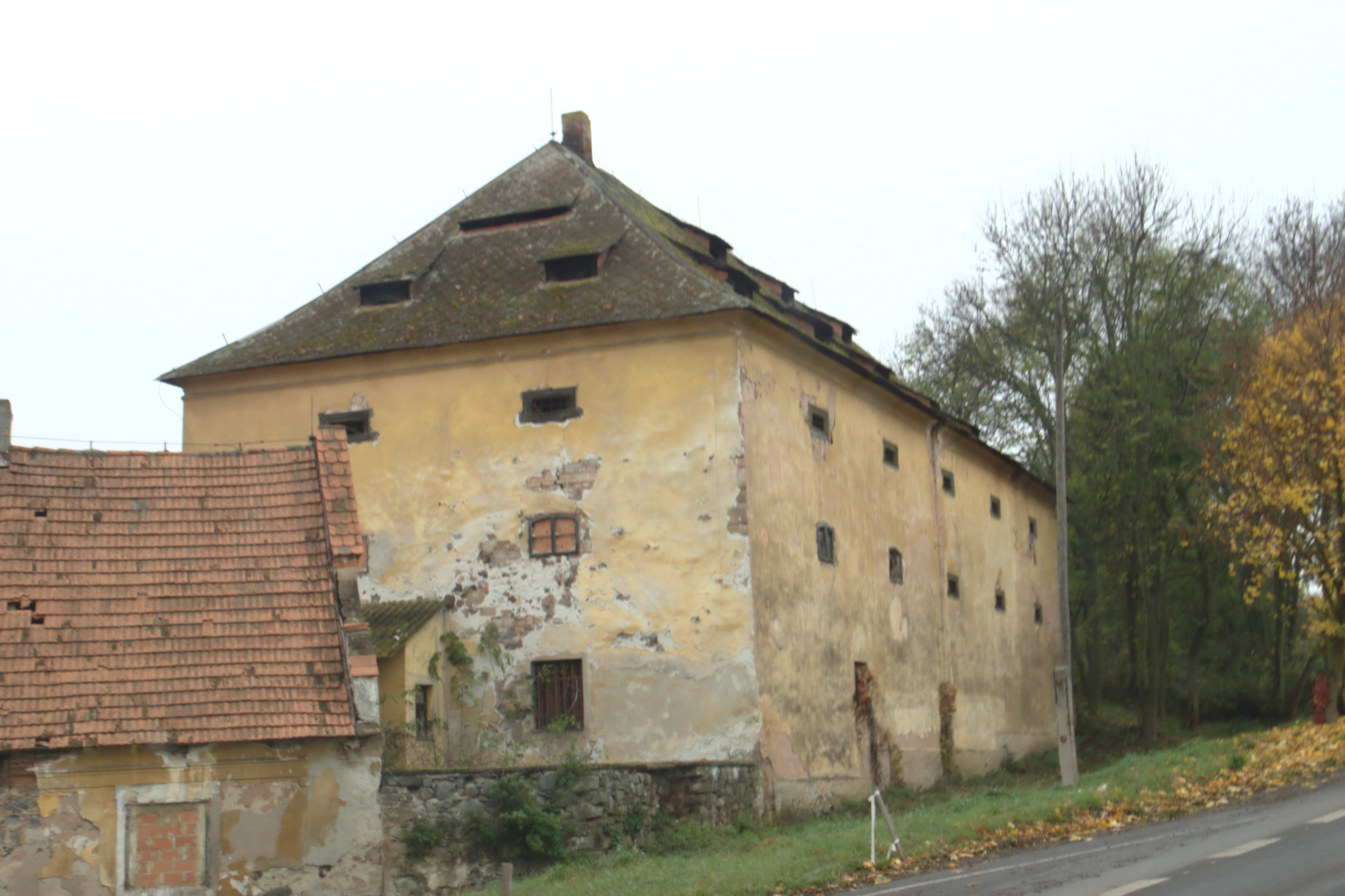 A former granary in Libkovice near Louny, Ústí Region, CZ